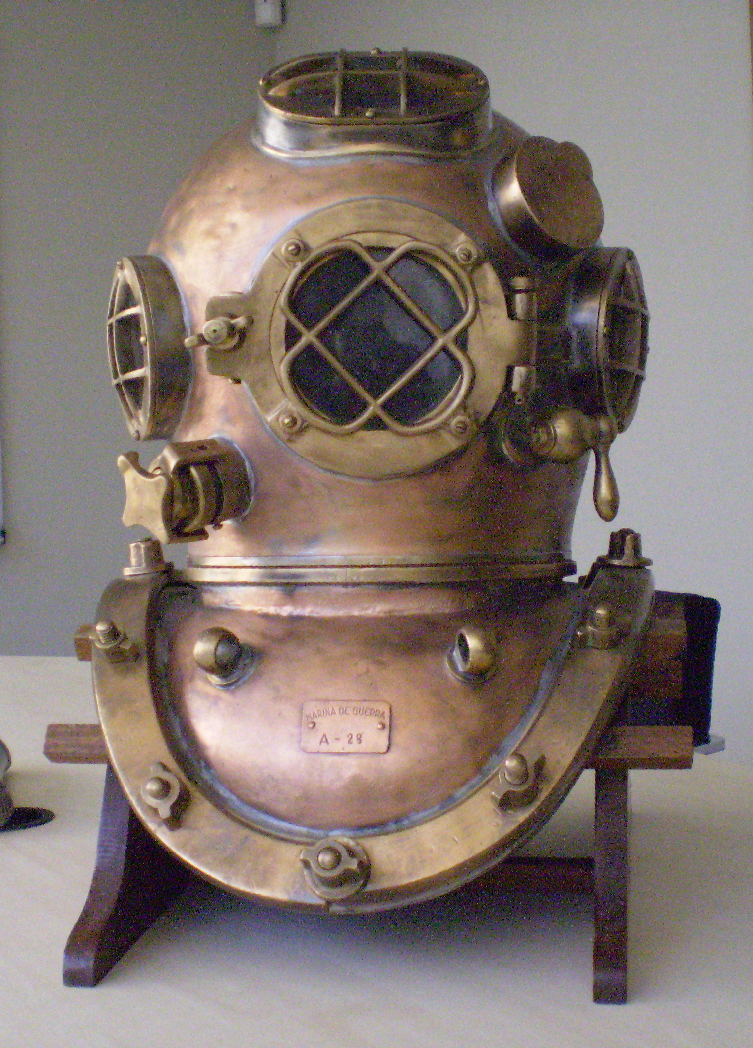 cropped front view of 12 bolt 4 light diving helmet